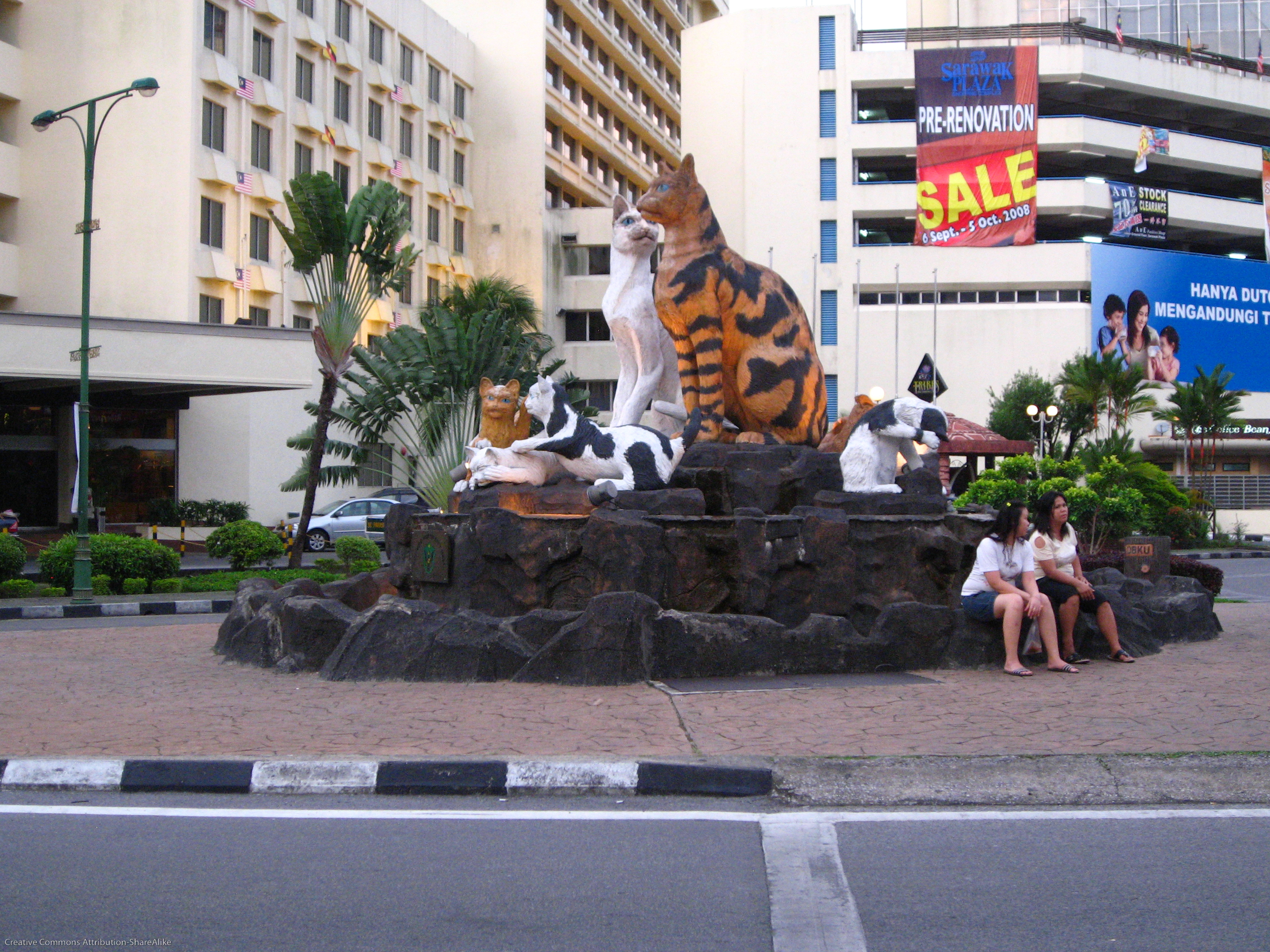 Kuching is called the "cat city," although no one's quite sure why. Cat statues and cat-themed businesses abound, though.